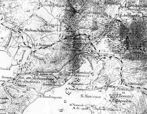 Map of Artyom